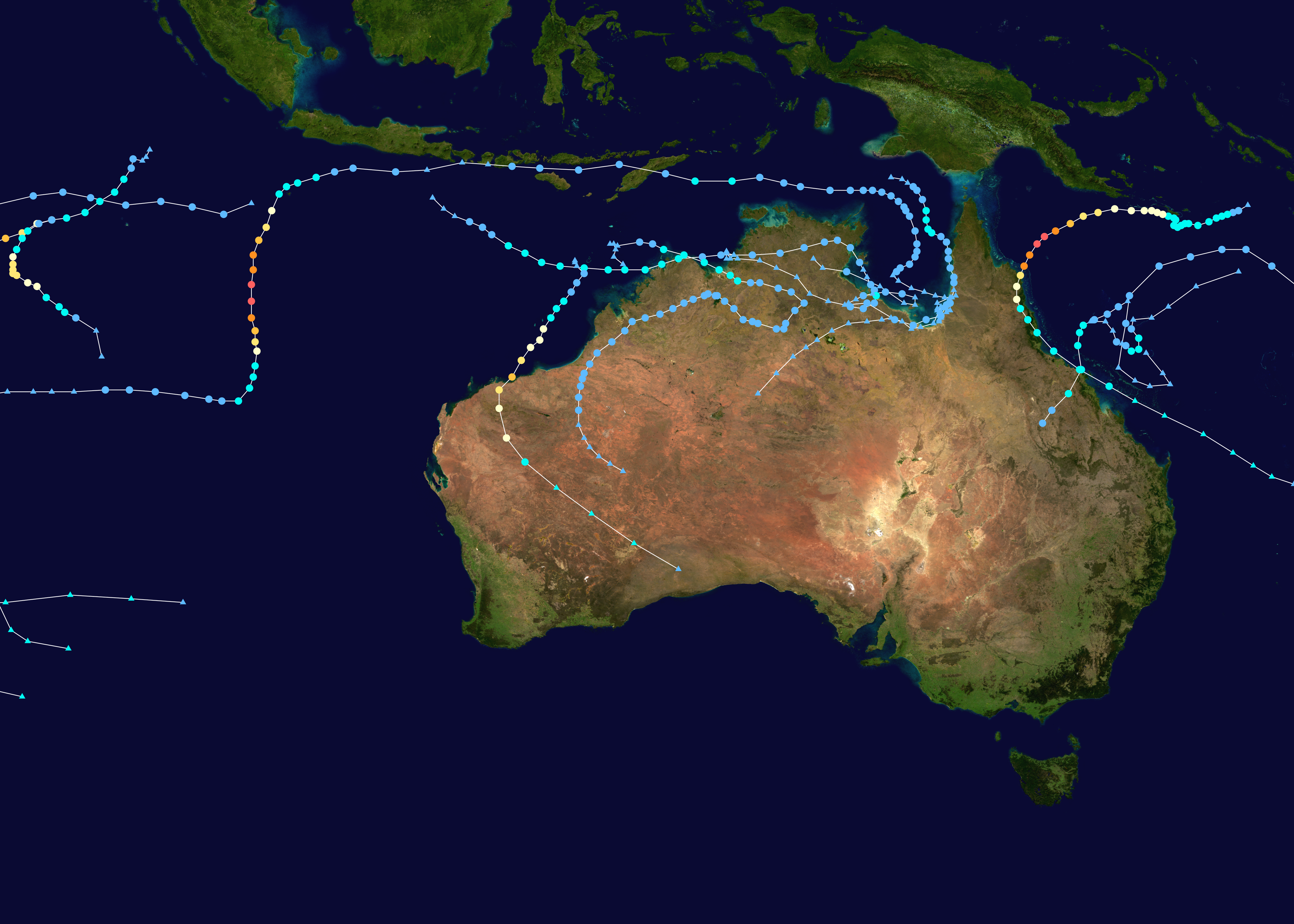 This map shows the tracks of all tropical cyclones in the 2013-14 Australian region cyclone season. The points show the location of each storm at 6-hour intervals. The colour represents the storm's maximum sustained wind speeds as classified in the Saffir-Simpson Hurricane Scale (see below), and the shape of the data points represent the type of the storm. Saffir–Simpson scale Tropical depression≤38 mph≤62 km/h Category 3111–129 mph178–208 km/h Tropical storm39–73 mph63–118 km/h Category 4130–156 mph209–251 km/h Category 174–95 mph119–153 km/h Category 5≥157 mph≥252 km/h Category 296–110 mph154–177 km/h Unknown Storm type Tropical cyclone Subtropical cyclone Extratropical cyclone / Remnant low / Tropical disturbance / Monsoon depression